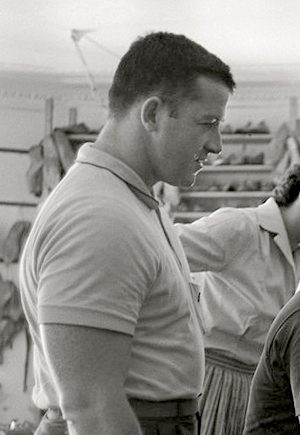 Olga Fikotova and Hal Connolly at the 1960 Olympics.